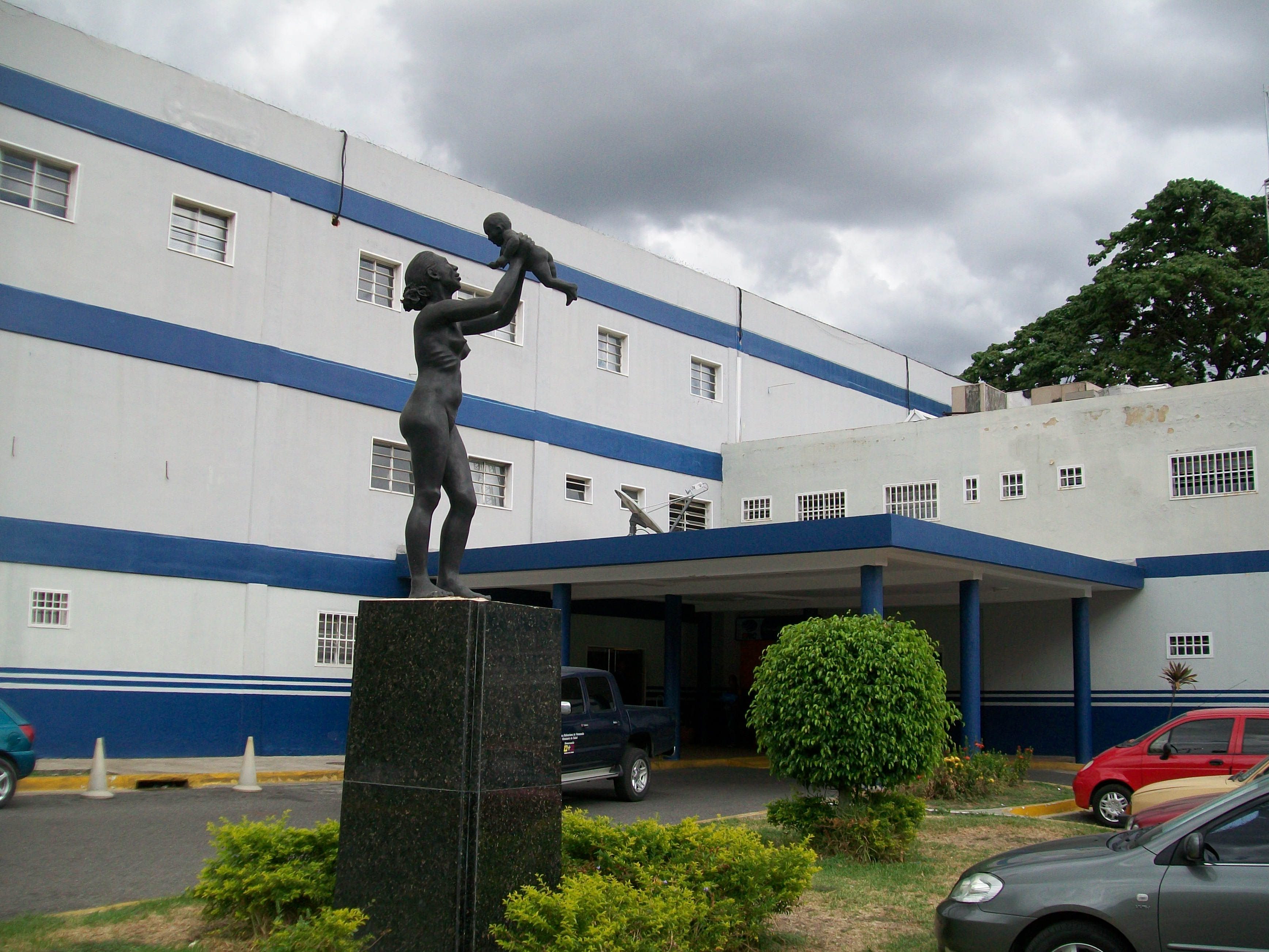 Main entrance of maternity hospital La Candelaria, Maracay, Venezuela.